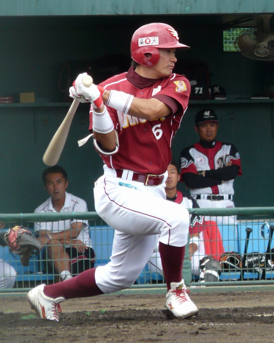 Hisanori Nishitani, infielder of the Tohoku Rakuten Golden Eagles, at Lotte Urawa Baseball Ground.